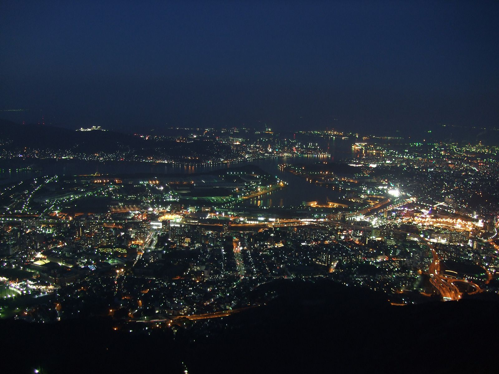 The night view from the top of Mt.Sarakura, Yahatahigashi Ward, Kitakyushu City, Fukuoka, Japan. It is called "Hyakuoku-Doru-No-Yakei"(meaning 10 billion dollar of night view).